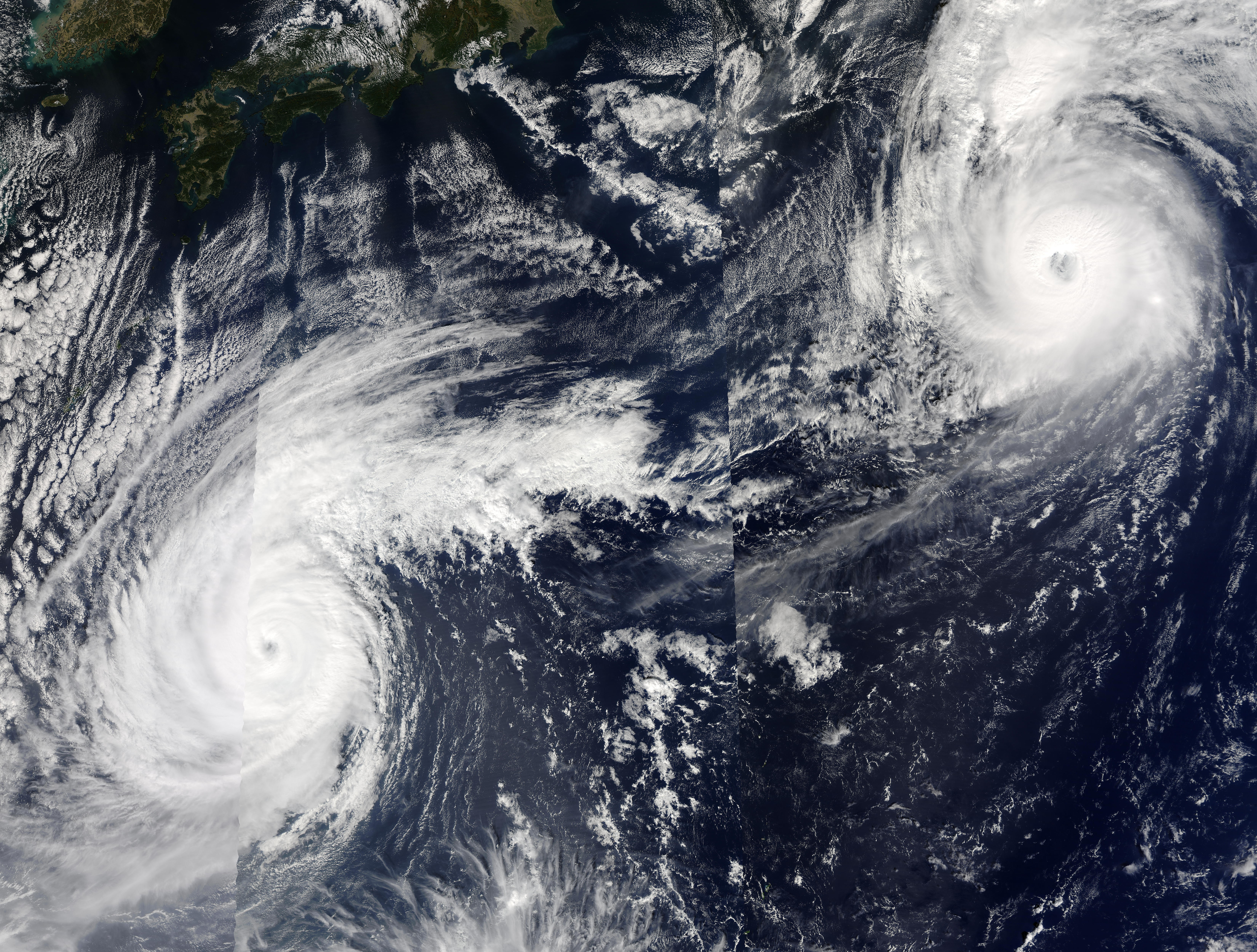 The Moderate Resolution Imaging Spectroradiometer (MODIS) instrument onboard NASA’s Terra and Aqua satellites captured this composite, true-color image of Typhoons Parma (top-right) and Ketsana (bottom-left) on October 24, 2003 at 3:50 UTC. Ketsana has weakened over the last 24 hours, but is still a strong typhoon far to the south of Japan with sustained winds of 105 mph. The typhoon is drifting towards the north-northeast at 5 mph and is forecast to quickly gain forward speed within 24 to 36 hours. Typhoon Parma is now located over the open North Pacific Ocean where it is of no immediate threat to land. The storm is moving at a brisk 23 mph towards the east-northeast and is currently packing maximum sustained winds of nearly 145 mph. Parma is forecast to undergo marked weakening within the next two days as it encounters cooler waters.